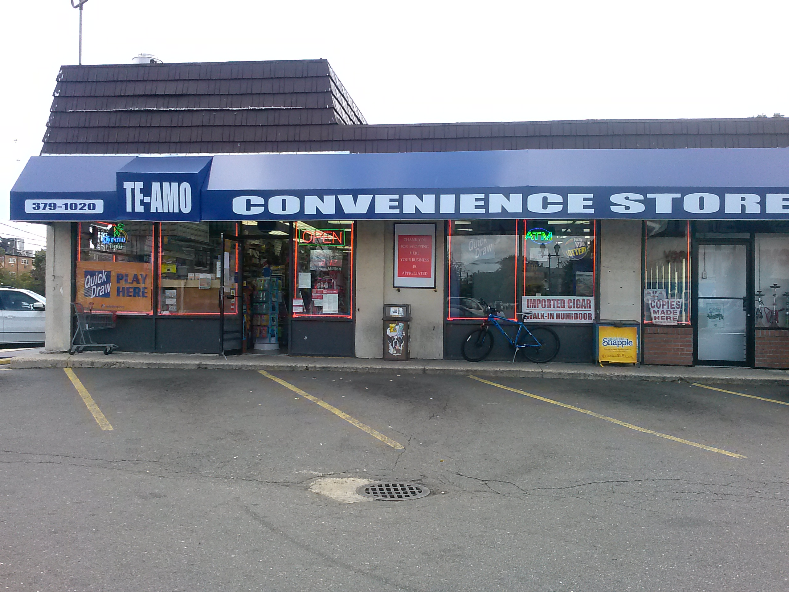 Convenience Store